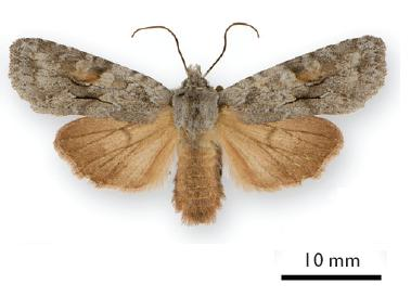 Lithophane abita female